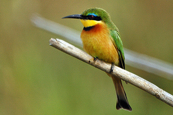 Uganda Little Bee-eater Merops pusillus meridionalis